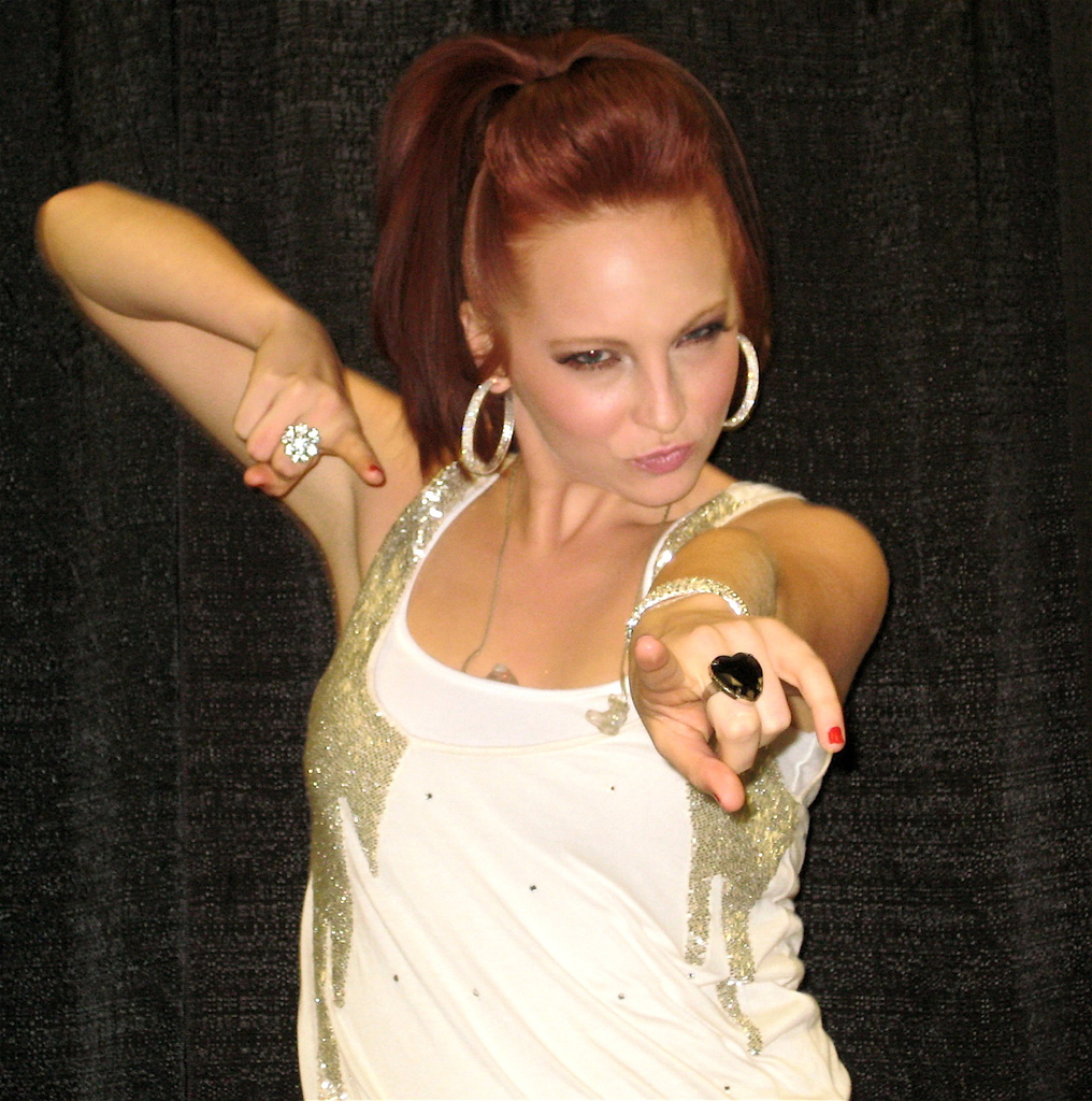 Candice Accola in 2007